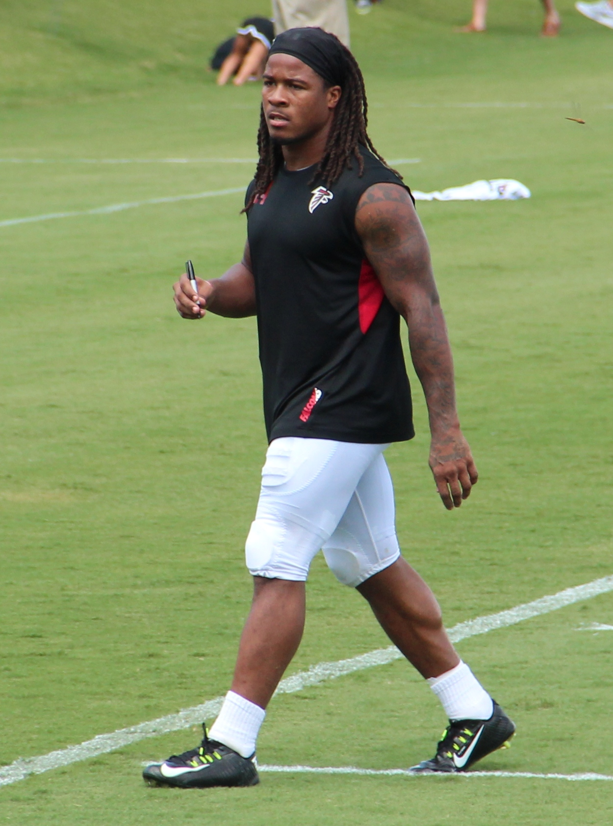 Devonta Freeman in 2016